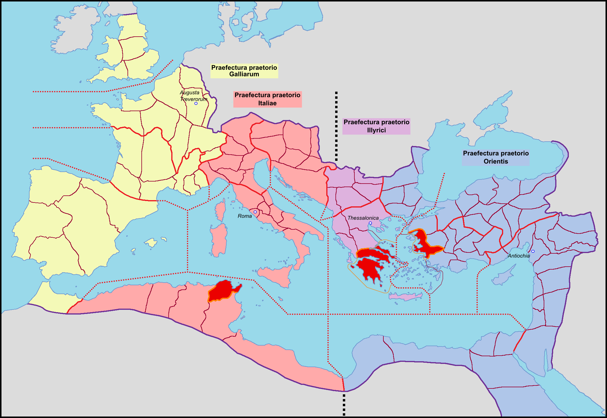 Map of the Roman Empire in praetorian prefectures, in AD 400, with an unlikely treatment of the British provinces.